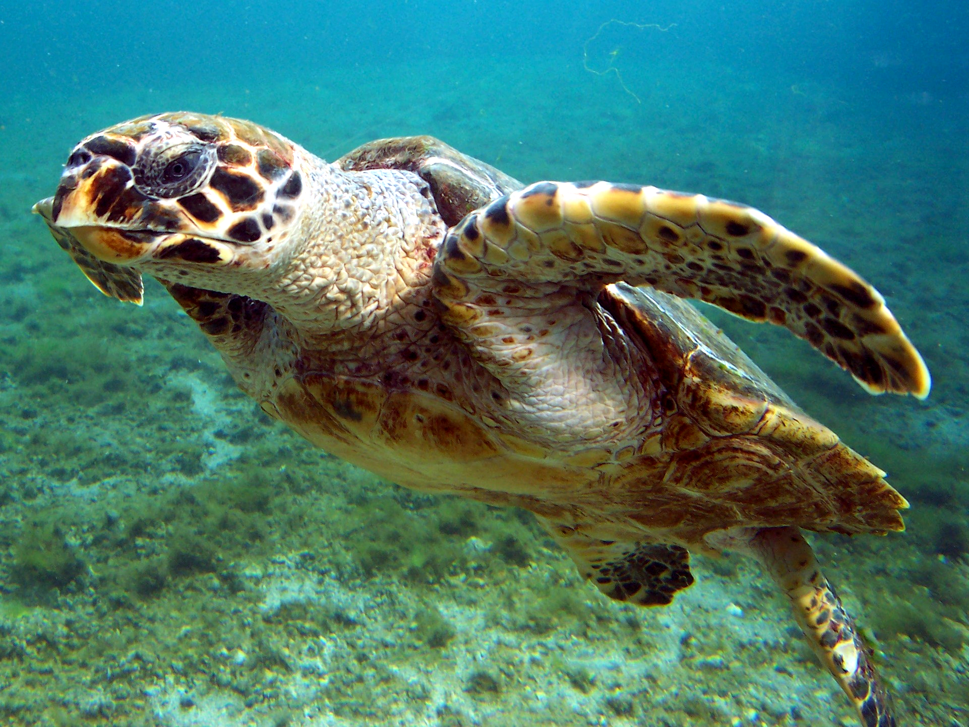 Hawksbill turtle (Eretmochelys imbricata) - aquarium of Kélonia Resort - Réunion island